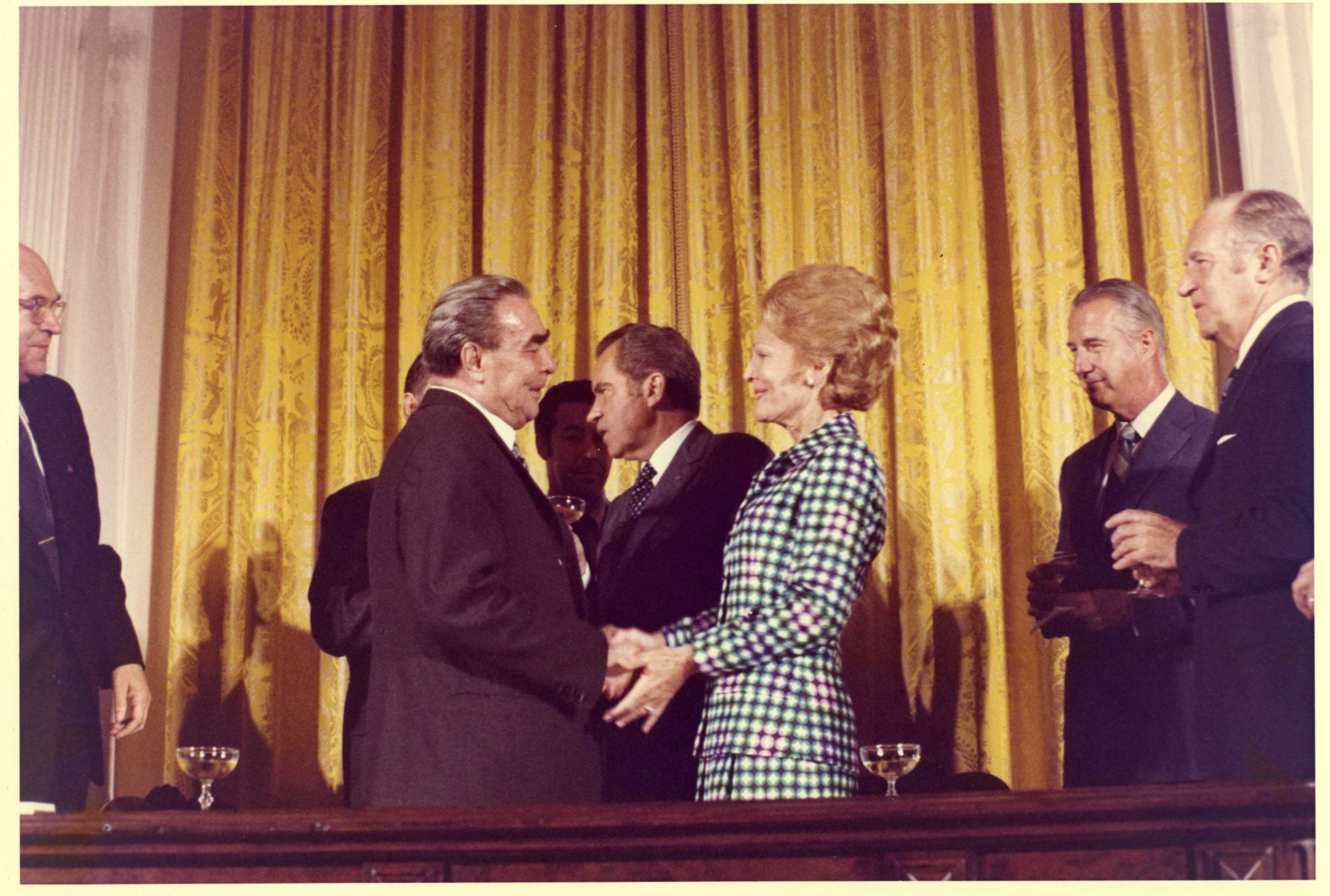 US First Lady Pat Nixon shakes hands with Soviet Premier Leonid Brezhnev in the White House East Room at the conclusion of the signing of the Agreement Between The United States of America and The Union of Soviet Socialist Republics on the Prevention of Nuclear War. President Nixon is between the two, while Vice President Spiro Agnew and Secretary of State William Rogers are to Mrs. Nixon's right.